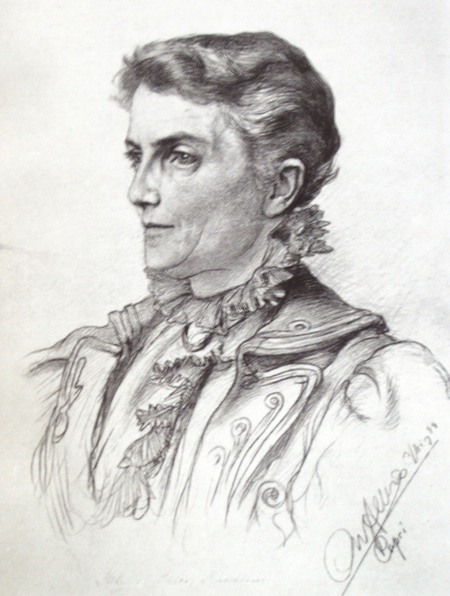 Swiss historian and women's rights activist Meta von Salis.